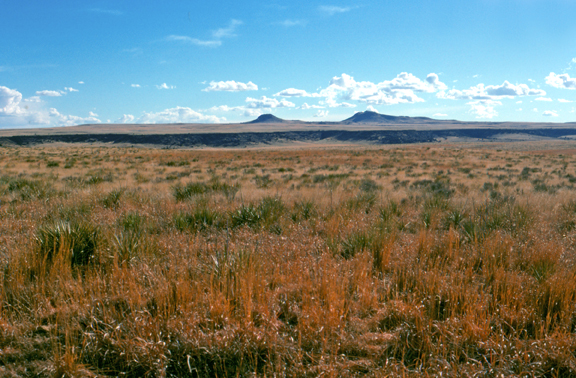 Kiowa National Grassland (original title at source is: "Kiowa Range Unit 53")